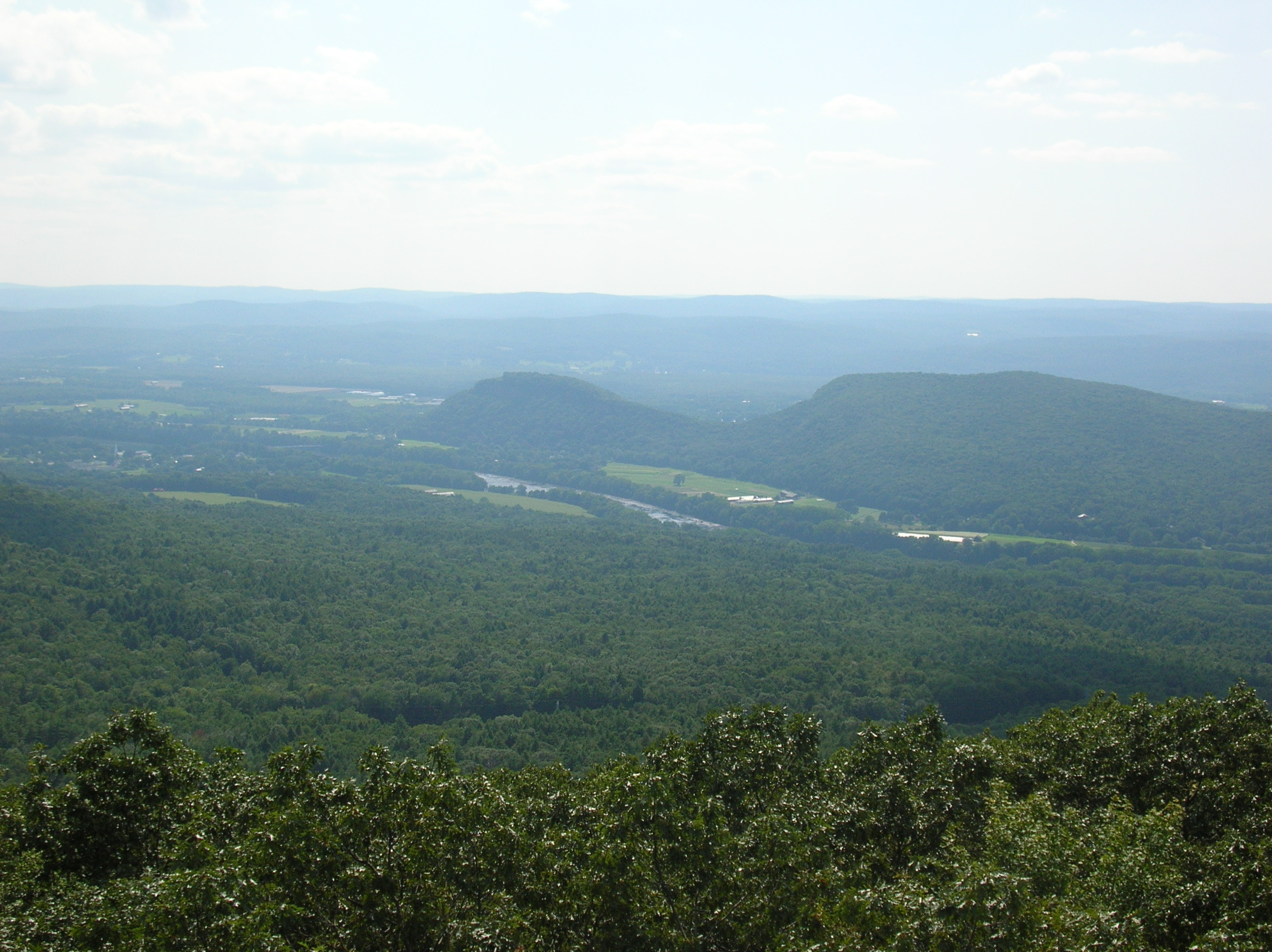 View of Mount Sugarloaf South (on left) and Mount Sugarloaf North (on right) as well as the Connecticut River from the summit of Mount Toby to the east.